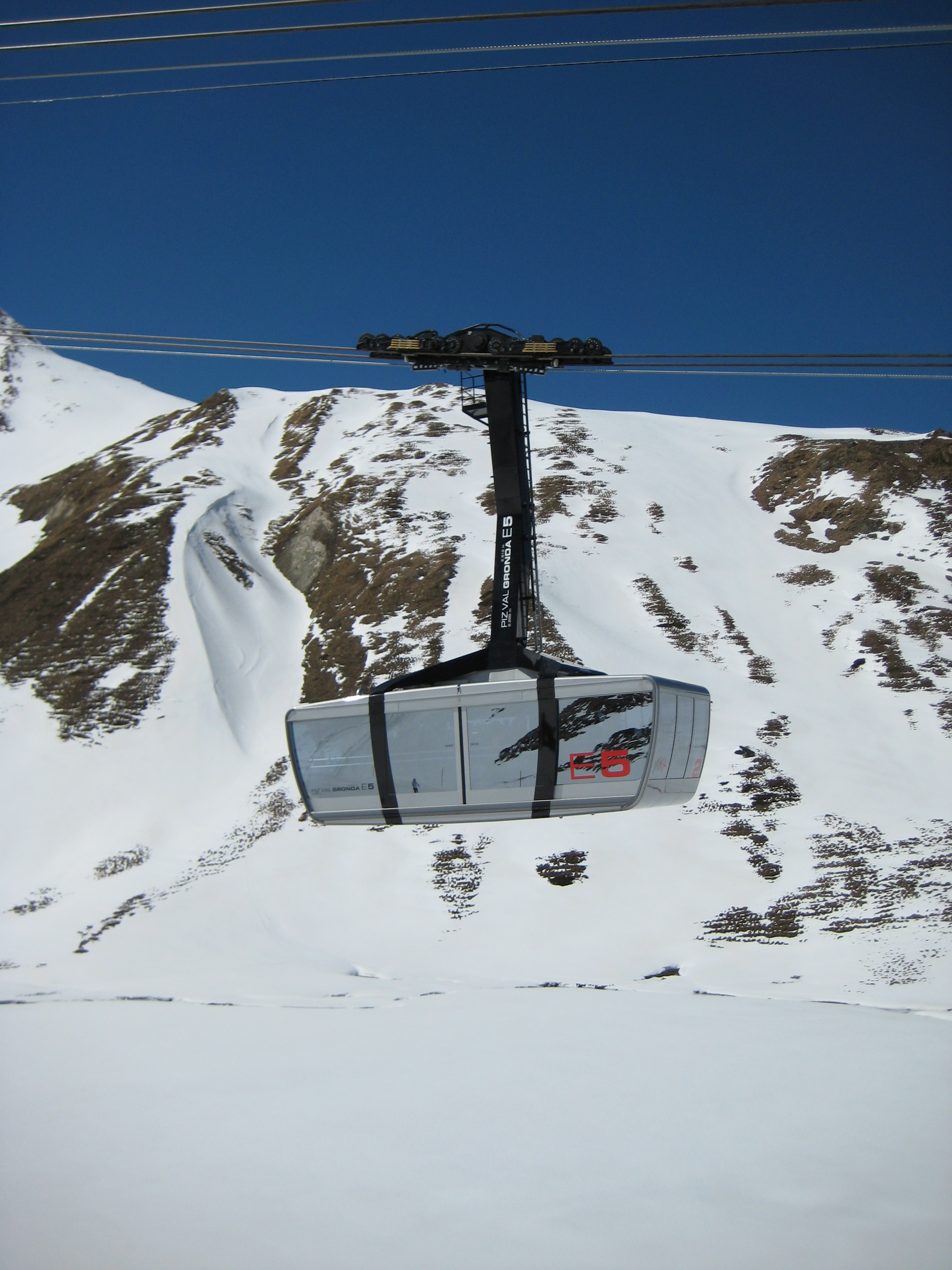 Cablecar of the Piz-Val-Gronda-Bahn in the Silvretta Arena in Ischgl.